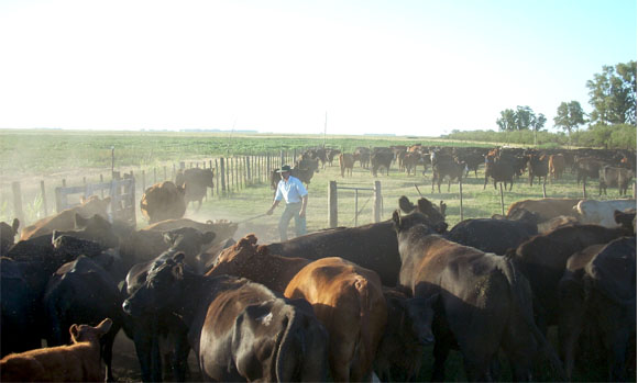 Working on the cattle at an Estancia in Argentina